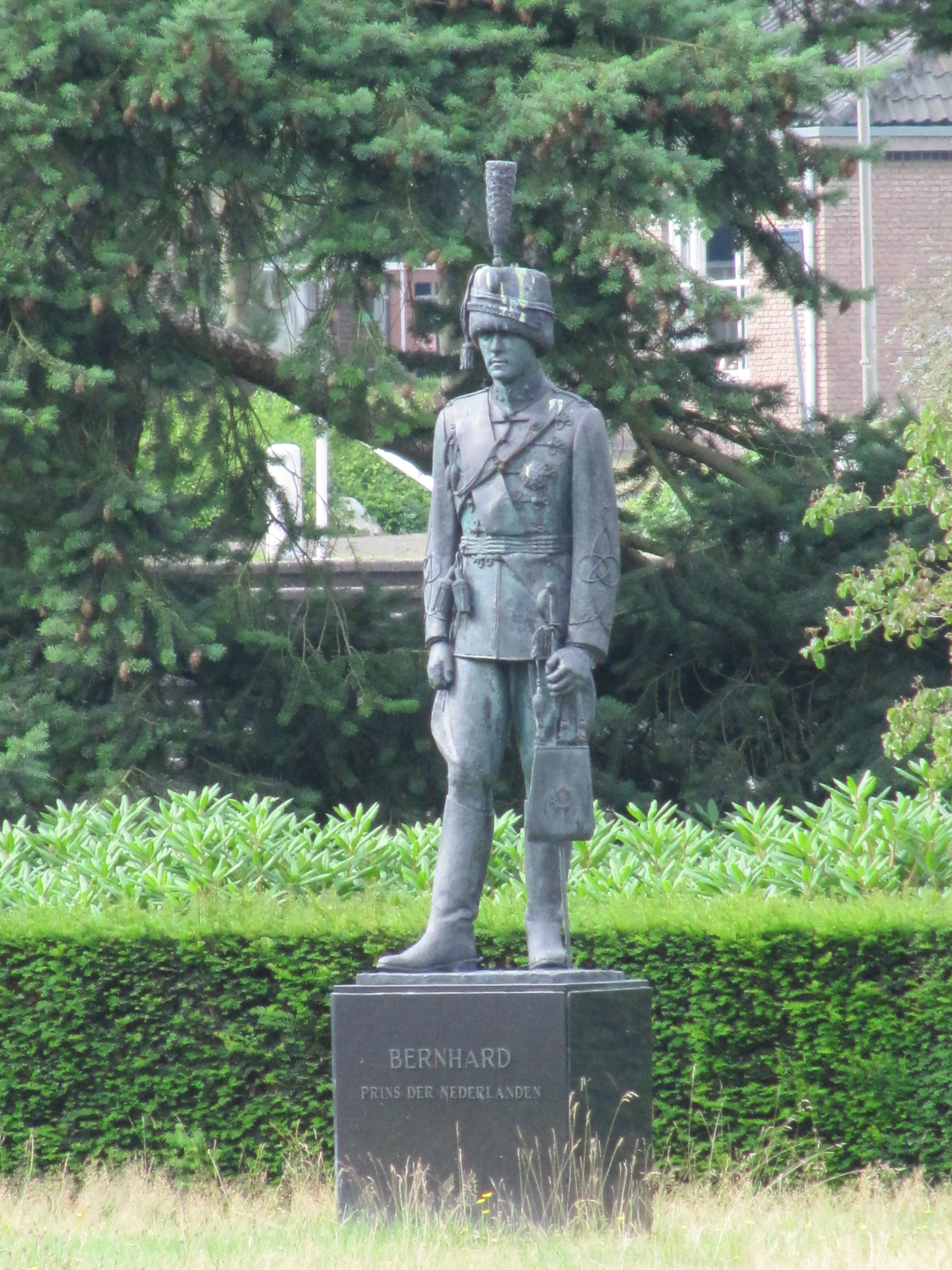 Statue of prince Bernhard at the front square of the Bernhard kazerne in Amersfoort, The Netherlands